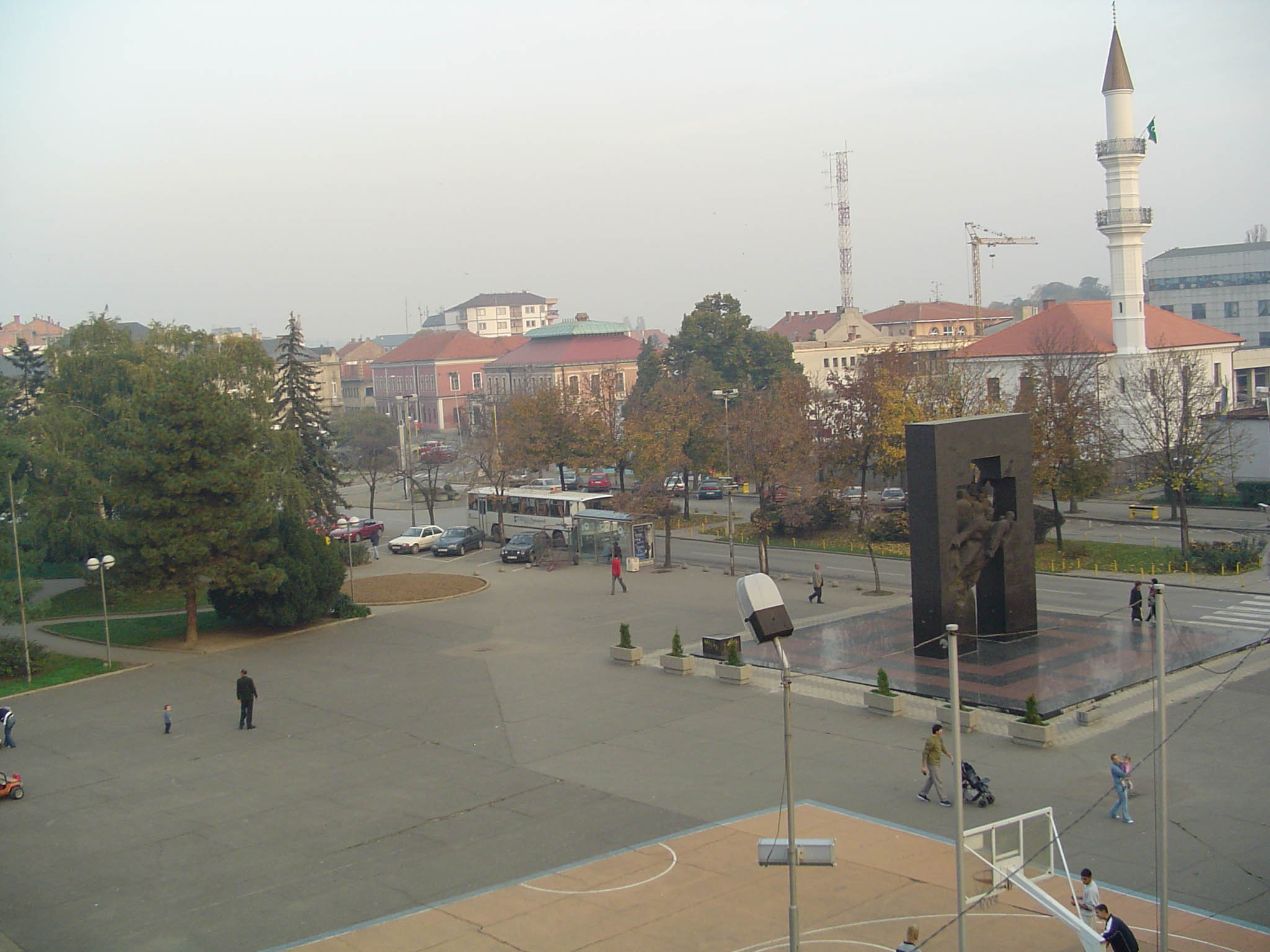 Bijeljina